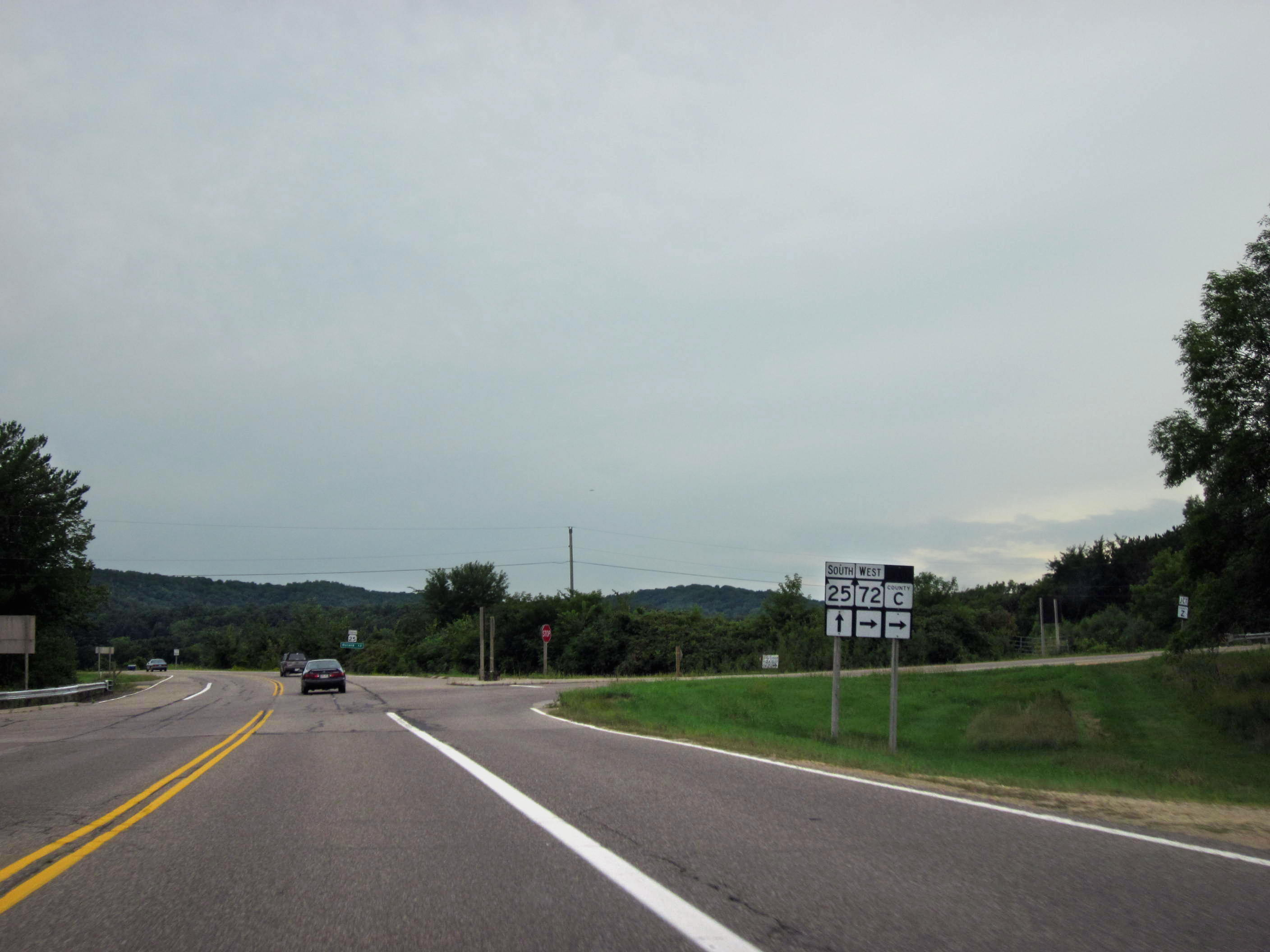 Looking south at the junction of Wisconsin Highway 25, Wisconsin Highway 72, and County Highway C in Downsville, Wisconsin. This junction is the eastern terminus of WIS 72.